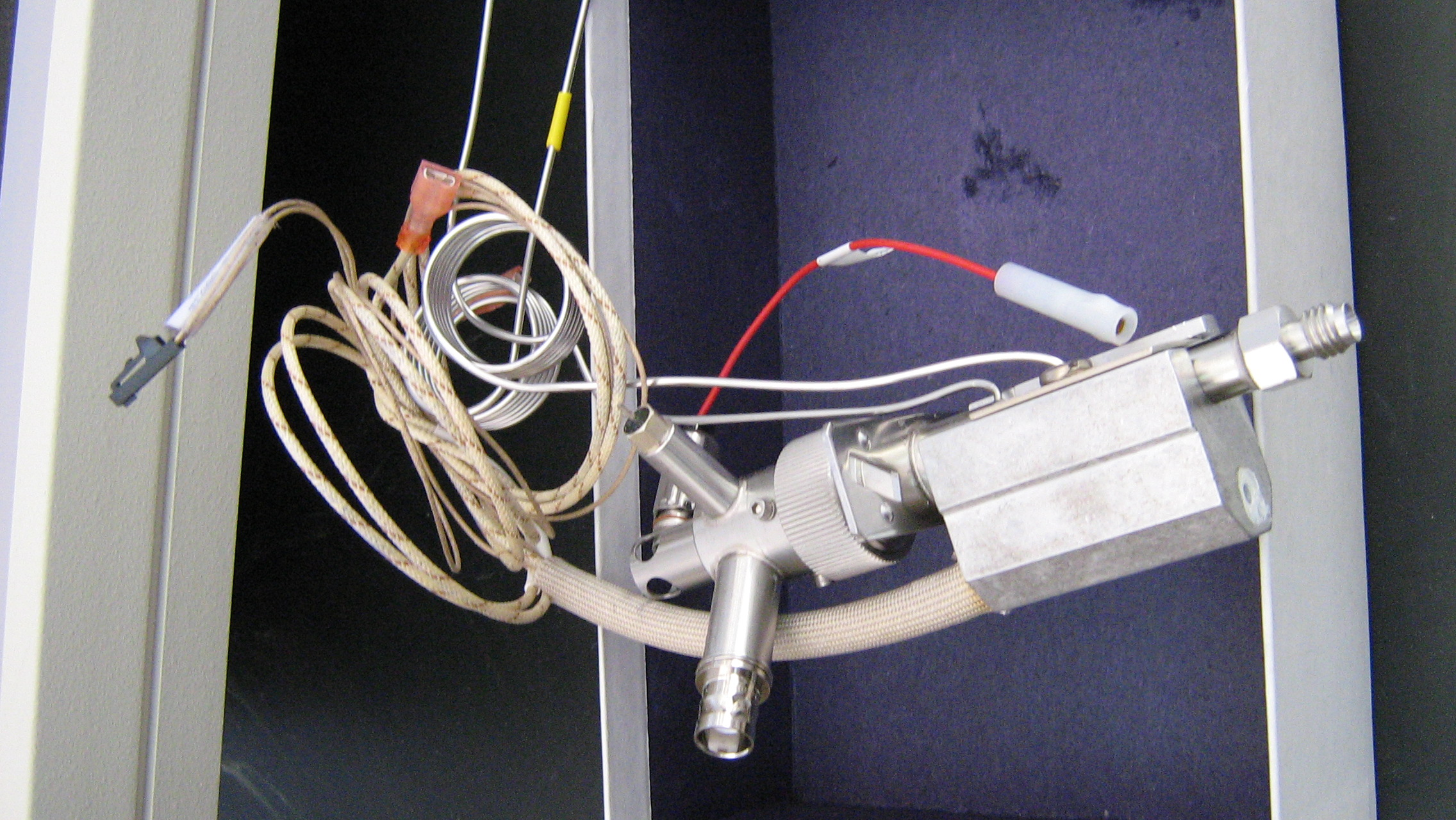 a view of a Flame Ionized Flame (FID)